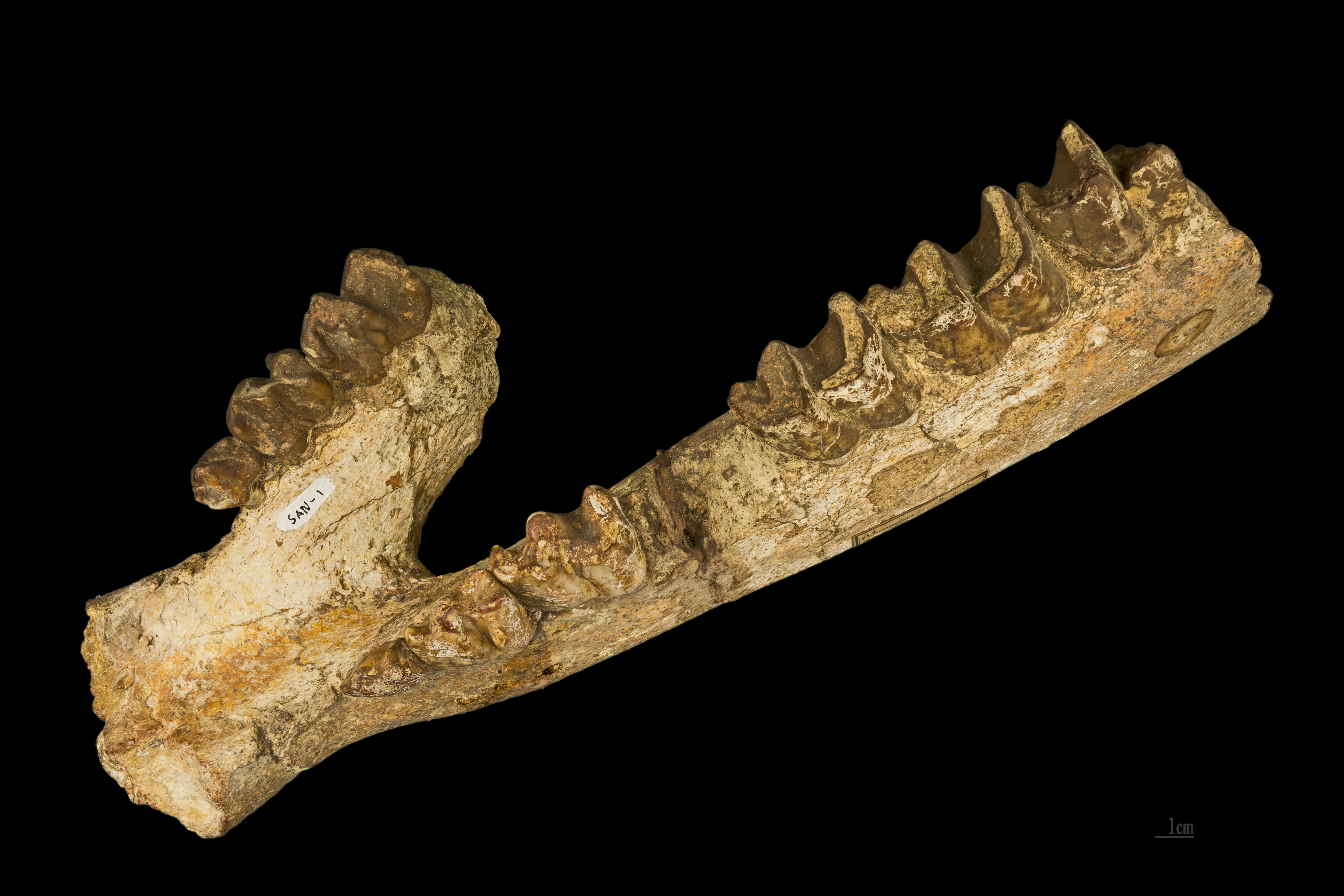 Lartetotherium sansaniense. Collection Edouard Laret Stage : Langhian 15.97 ± 0.05 Ma and 13.65 ± 0.05Ma. (million years ago)